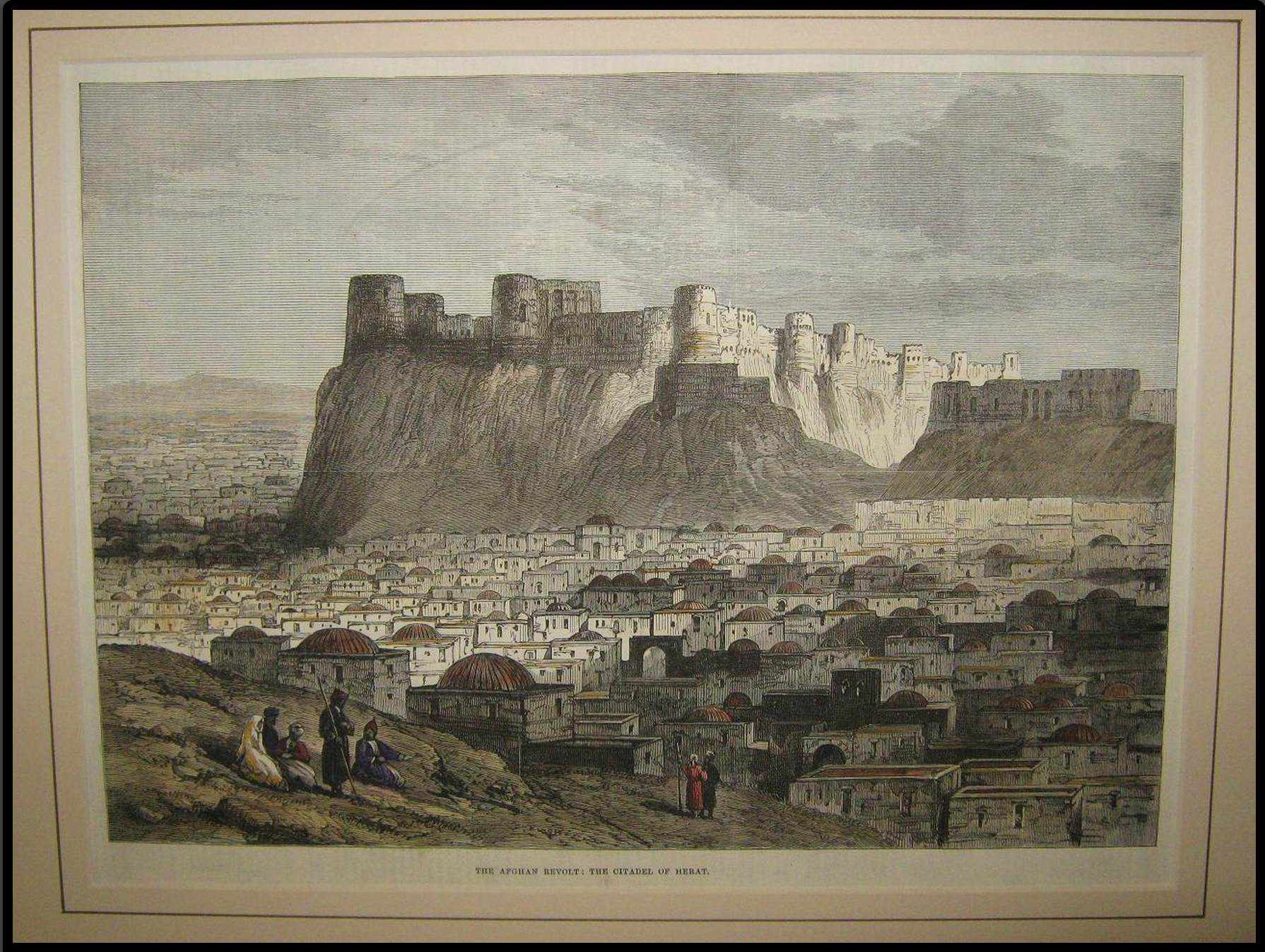 A 1879 image of the Citadel of Herāt during the Afghan Revolt.